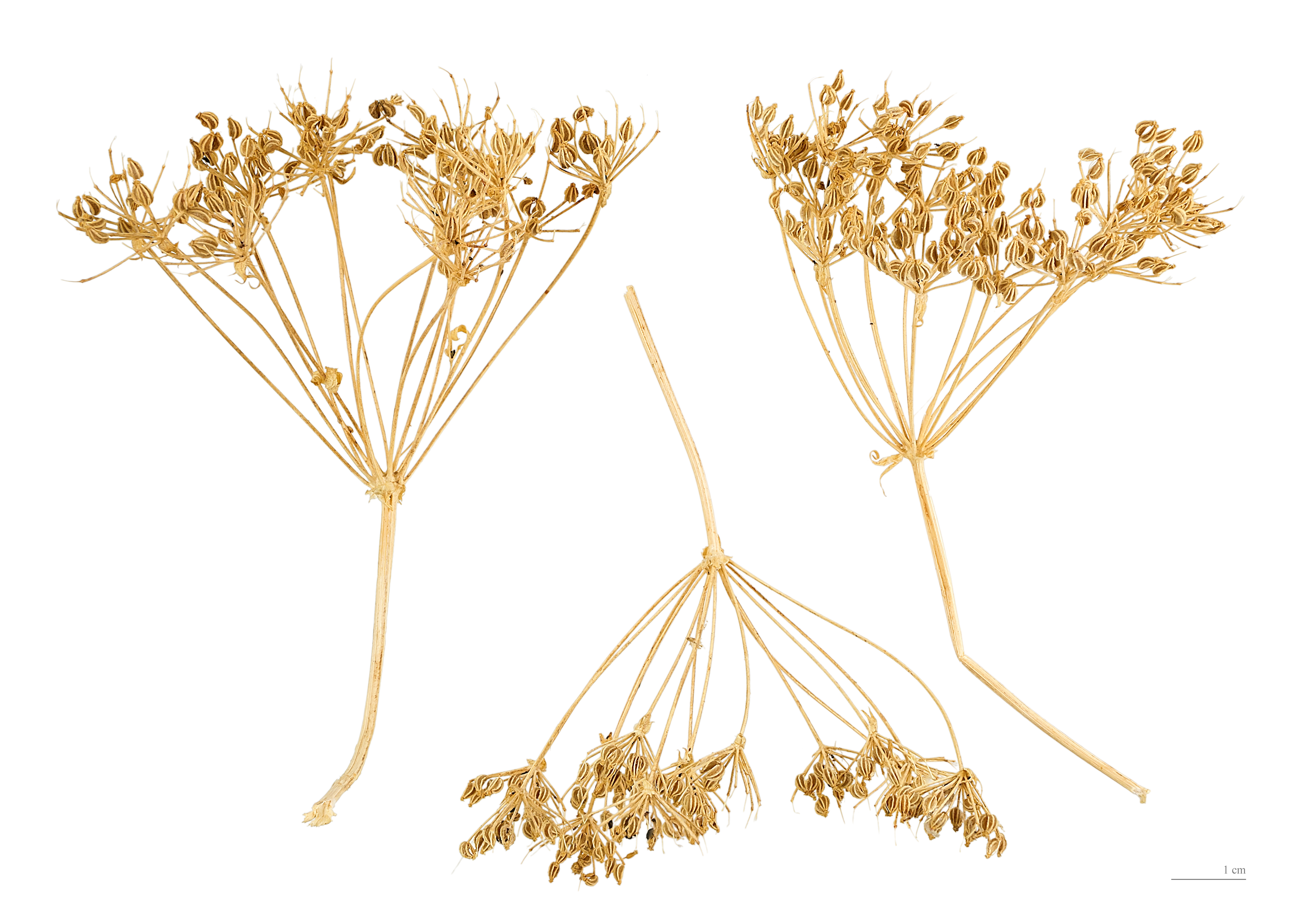 Conium maculatum, umbels and fruits.